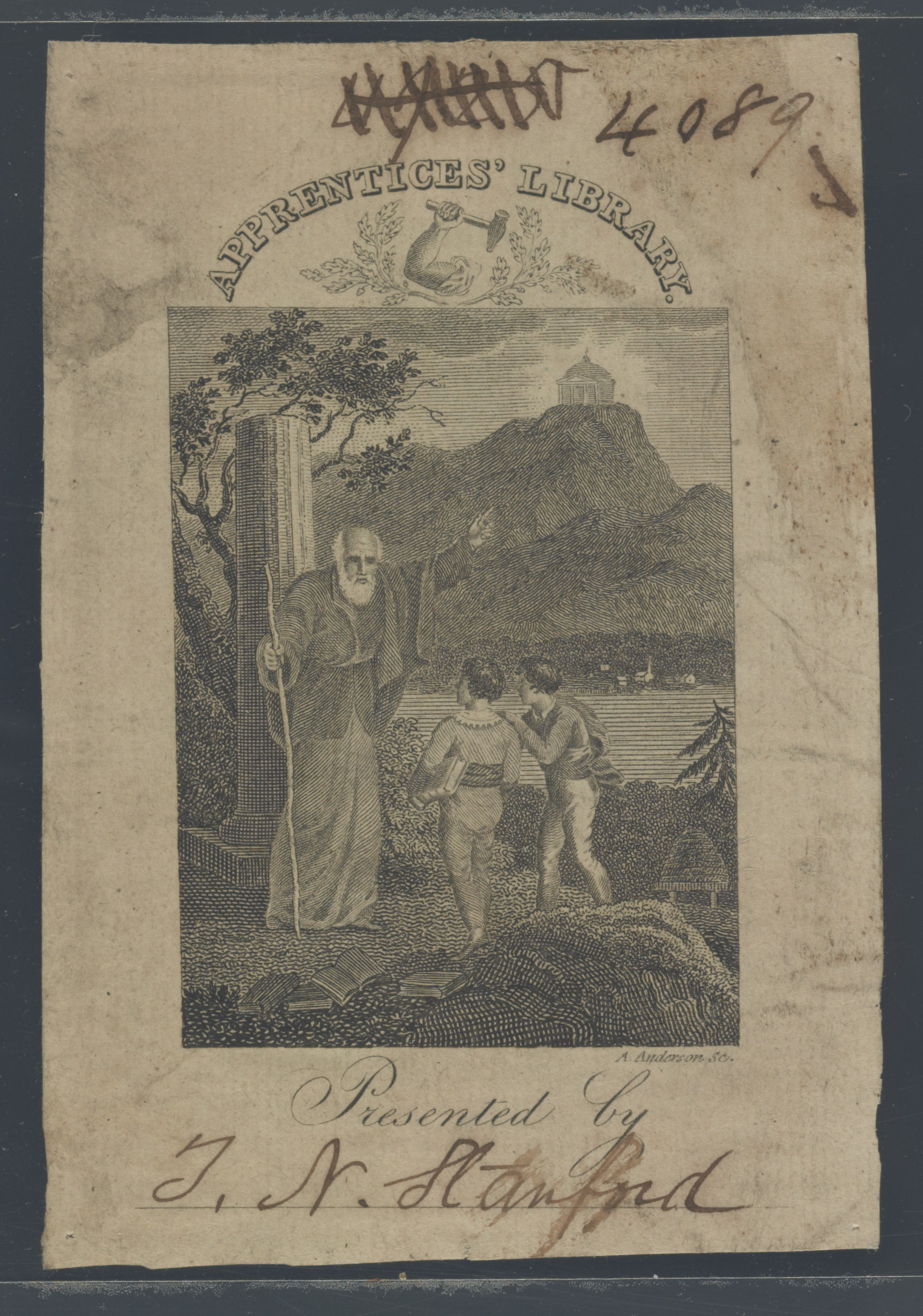 Title: Apprentices' library / A. Anderson sc. Abstract/medium: 1 print : wood engraving ; 12.3 x 8.4 cm (sheet)